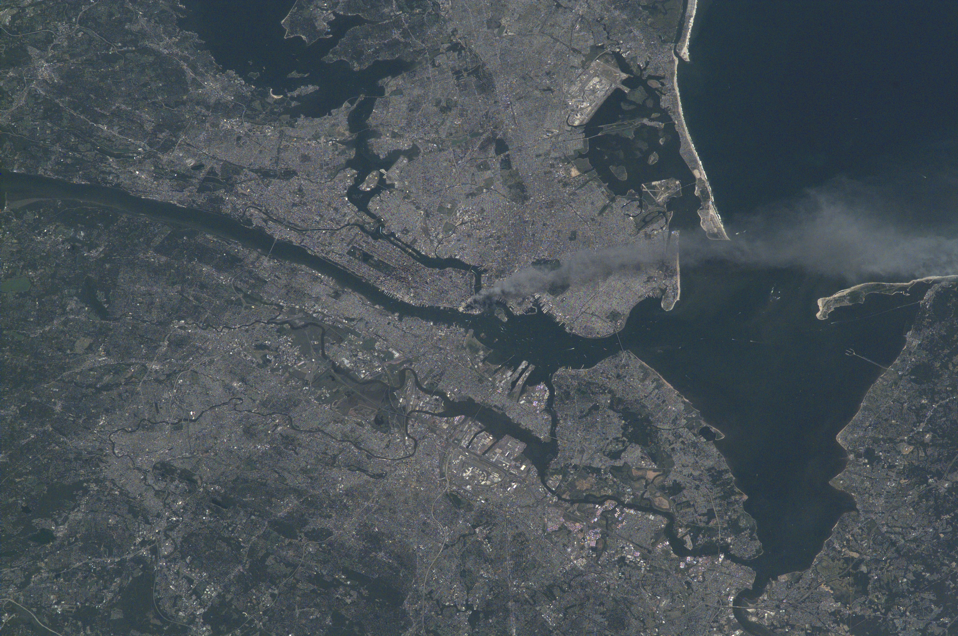 One of a series of pictures taken of metropolitan New York City (and other parts of New York as well as New Jersey) by one of the Expedition Three crew members onboard the International Space Station (ISS) at various times during the day of September 11, 2001. The image shows a smoke plume rising from the Manhattan area. The orbital outpost was flying at an altitude of approximately 250 miles. The image was recorded with a digital still camera.